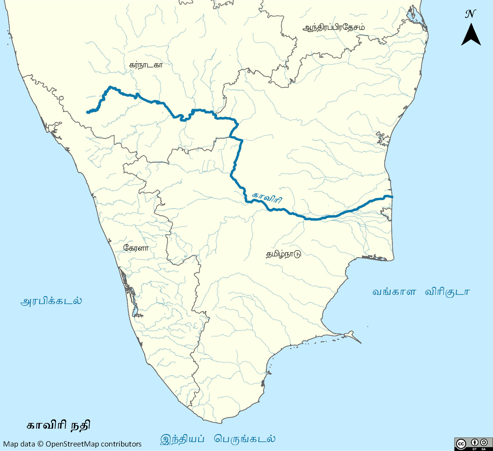 Map of river Cauvery flowing through Karnataka and Tamil Nadu with Tamil Text